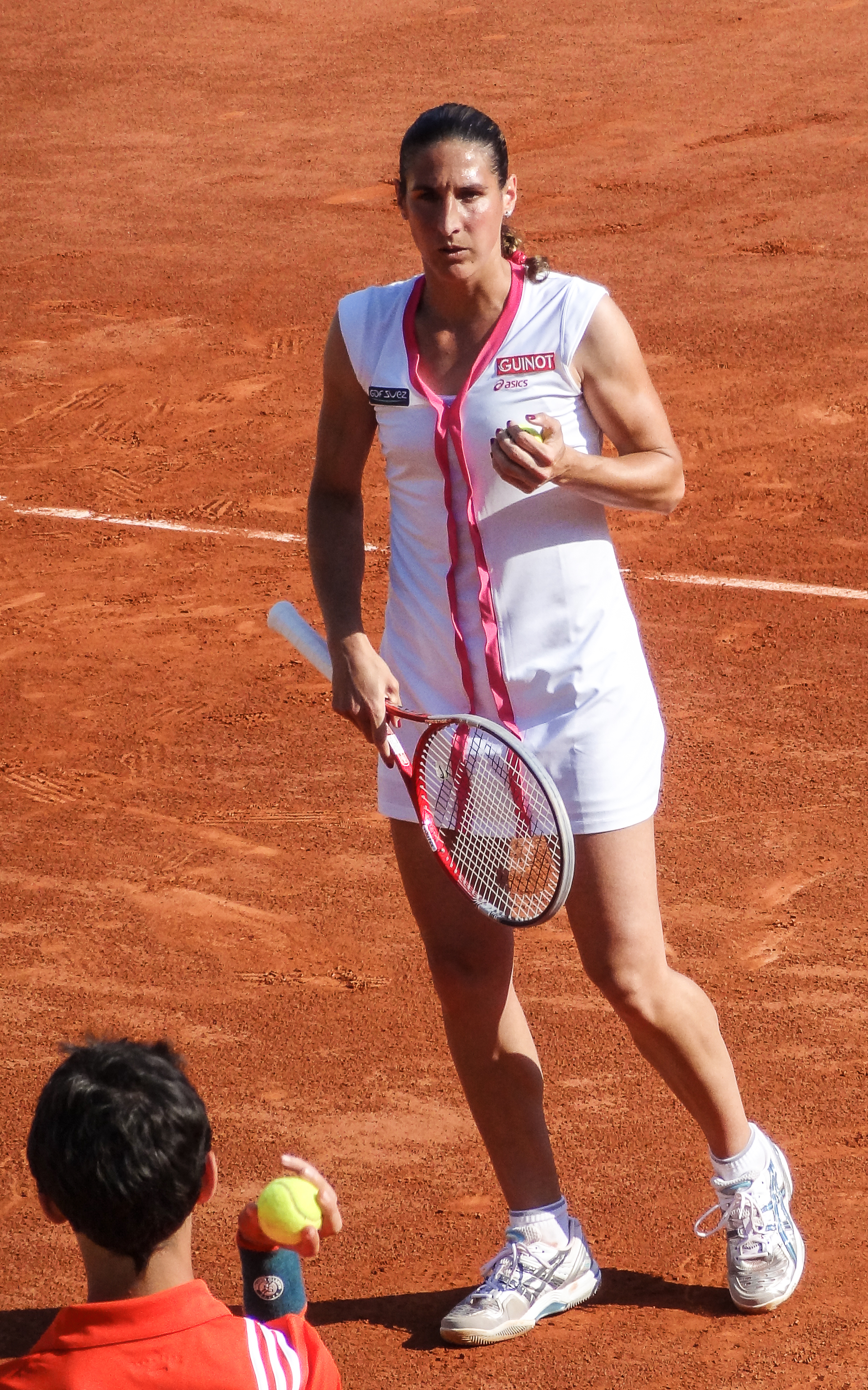 1er tour Roland Garros 2012 : Virginie Razzano (FRA) def. Serena Williams (USA)